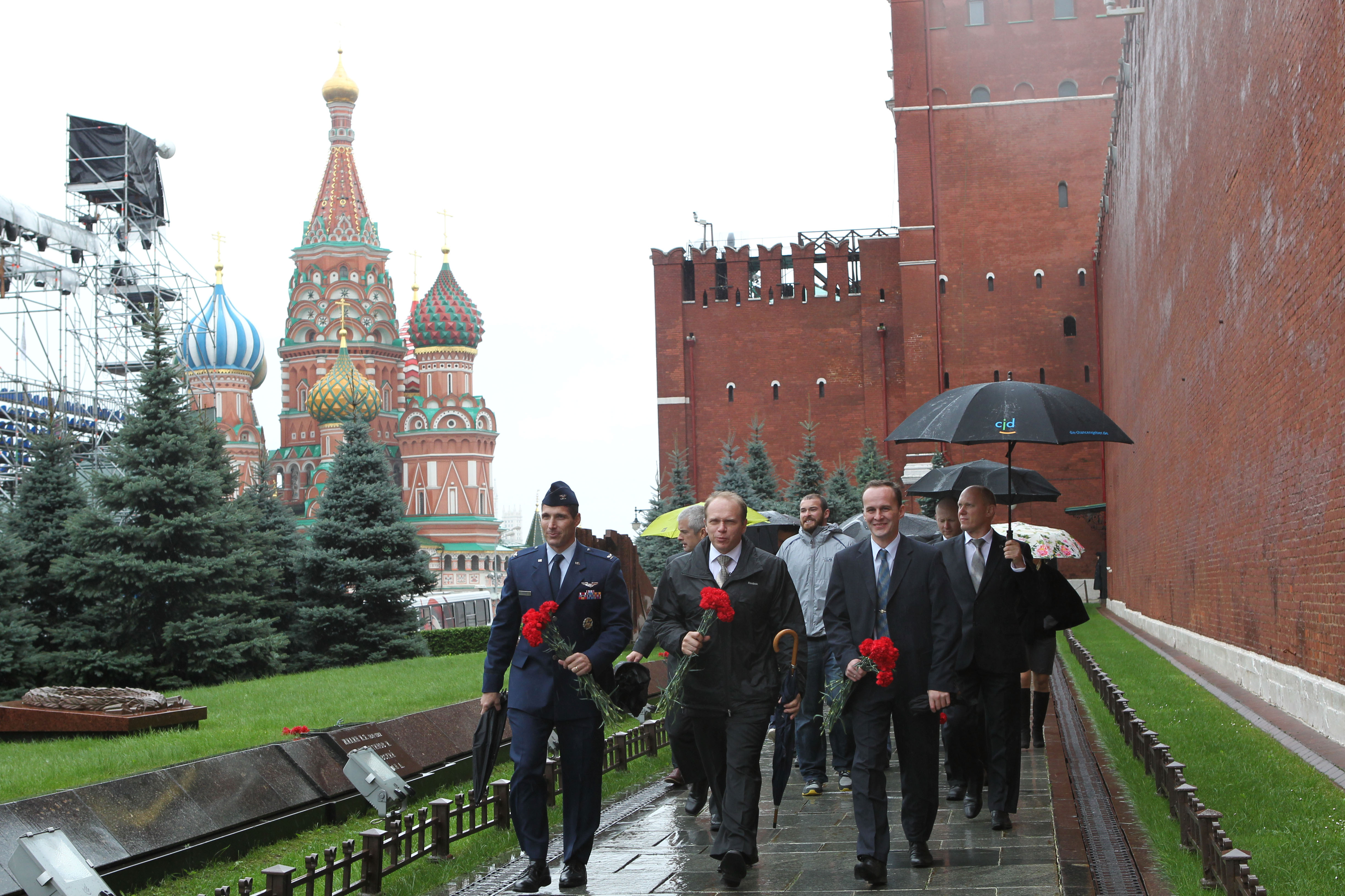 With the onion dome spires of St. Basil's Cathedral serving as a backdrop, Expedition 37/38 Flight Engineer Michael Hopkins of NASA (front row, left), Soyuz Commander Oleg Kotov (front row, center) and Flight Engineer Sergey Ryazanskiy (front row, right) lead the way along the Kremlin Wall in Red Square in Moscow to lay flowers Sept. 6 in a traditional ceremony to honor Russian space icons who are interred there. Kotov, Hopkins and Ryazanskiy are preparing for their launch to the International Space Station from the Baikonur Cosmodrome in Kazakhstan on Sept. 26, Kazakh time, aboard the Soyuz TMA-10M spacecraft.